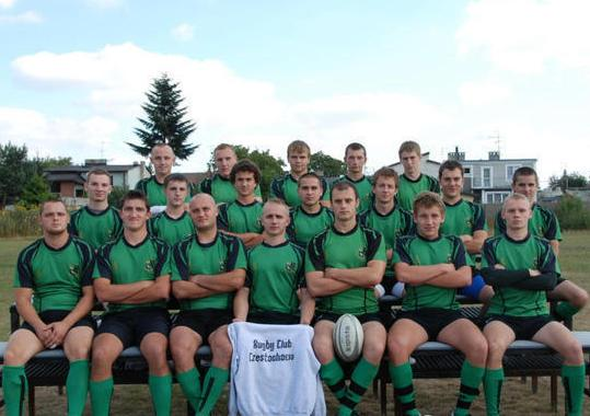 Squad of RCC